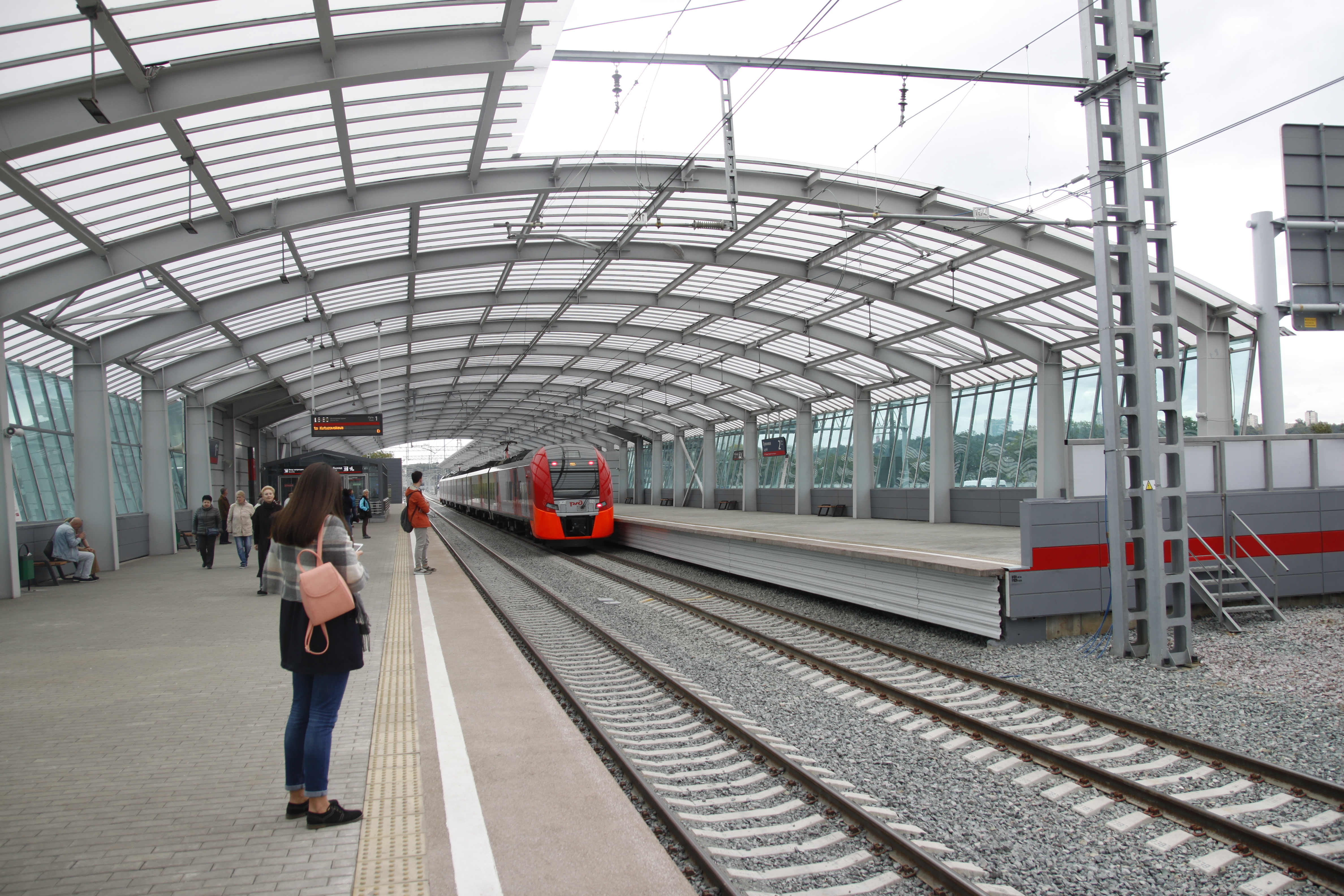 Luzhniki MCC station platform